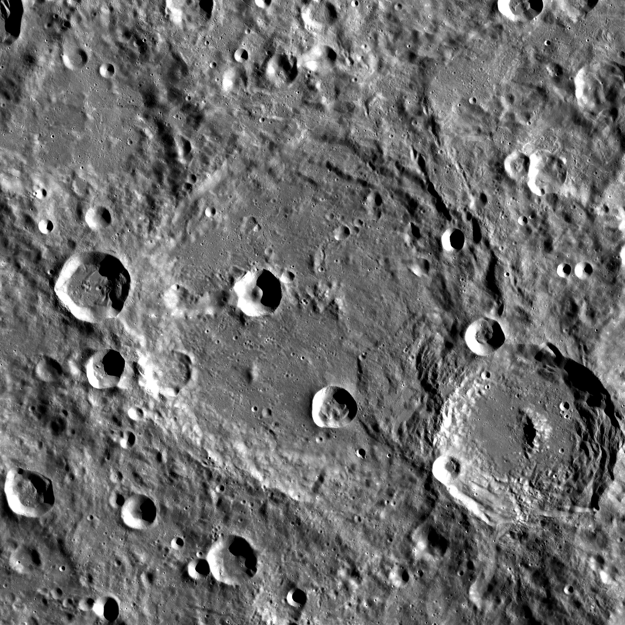 Crater Chebyshev (diam. 180 km) on the Moon, on the far side. Crater Langmuir (92 km) is seen in lower right. The image is centered at 33.9°S, 227.0°E (according to JMARS). Mosaic of photos by Lunar Reconnaissance Orbiter, made with Wide Angle Camera. Width of the photo is 300 km, north is up.